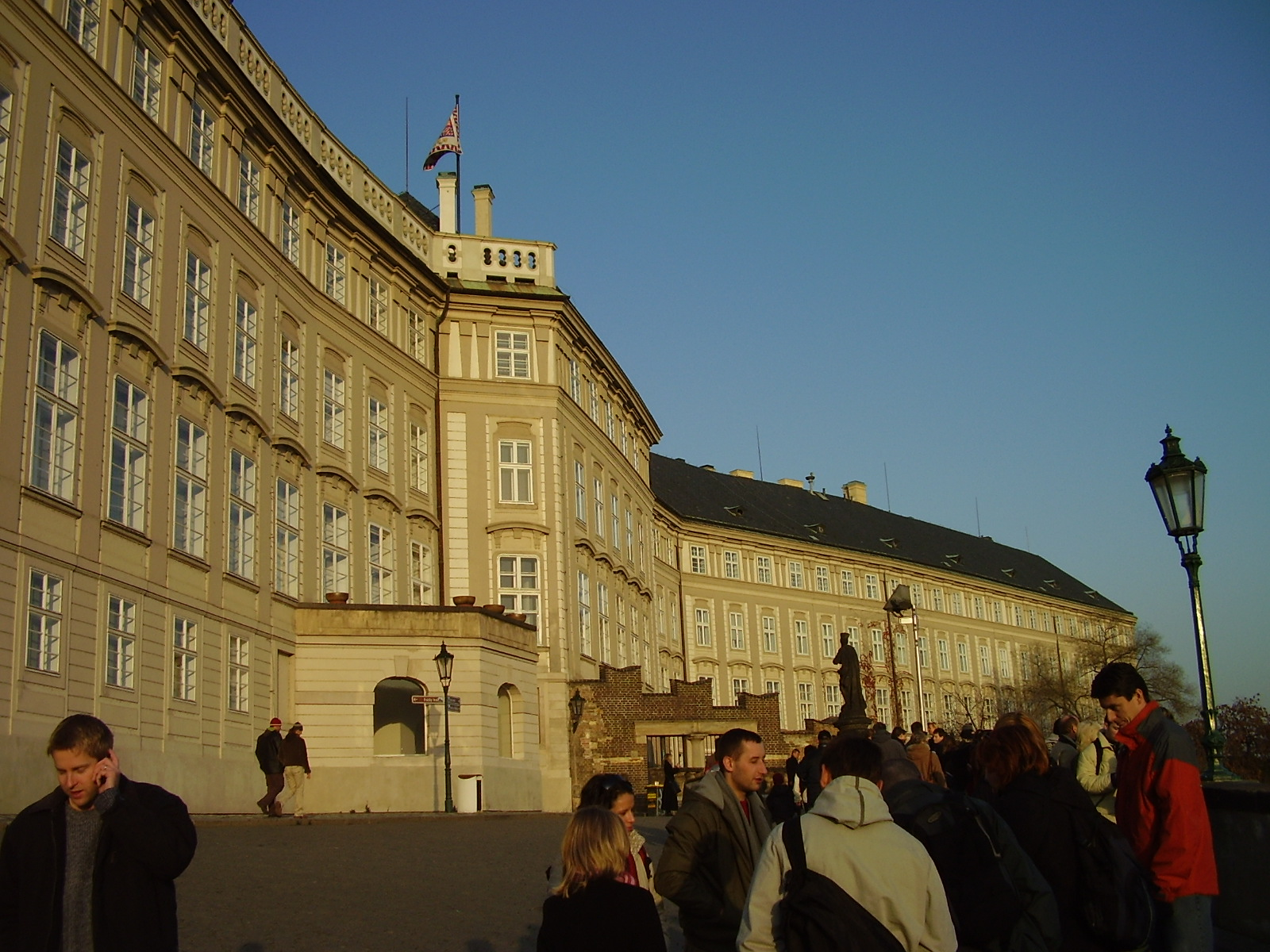 Prague november 2006